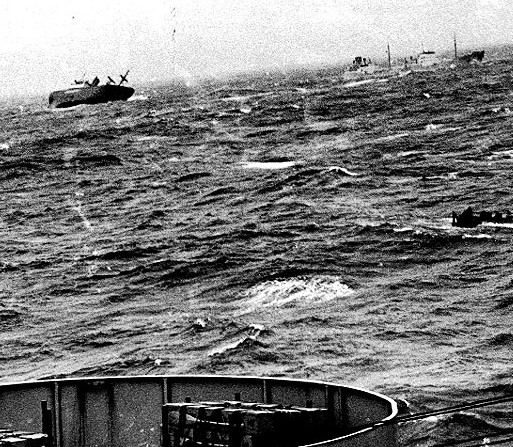 Picture taken form USNS General A.W. Greely (T-AP-141), circa 29 December 1951 showing the Flying Enterprise with heavy heel. Source: US NAVY